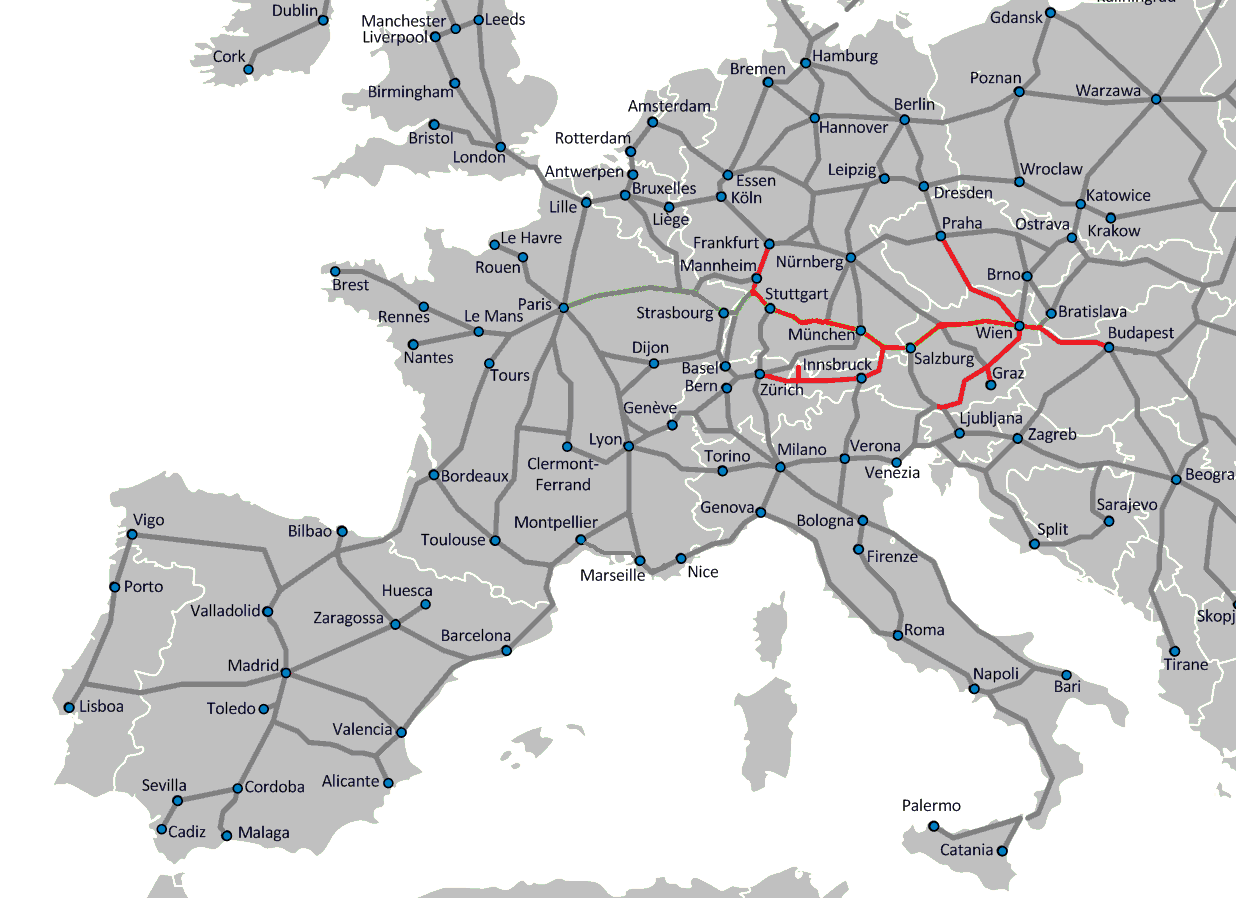 Map of Railjet in 2012